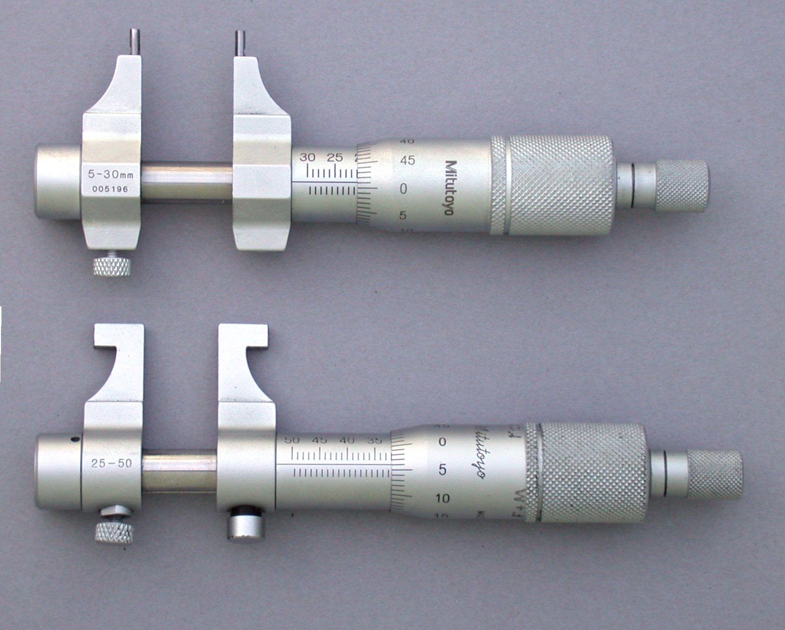 Inside micrometers